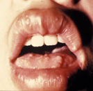 Multiple endocrine neoplasia, Type IIB (MEN-IIB) in 14-year-old boy An inherited, autosomal dominant disease characterized by medullary thyroid carcinoma, pheochromocytoma, and mucosal neuromas, associated at times with prognathism, puffy lips, and bony abnormalities. Both of these patients had surgically treated medullary thyroid carcinoma, neuromas of the tongue and lips, and prognathism. Neither, however, had any evidence, as yet, of adrenal disease.